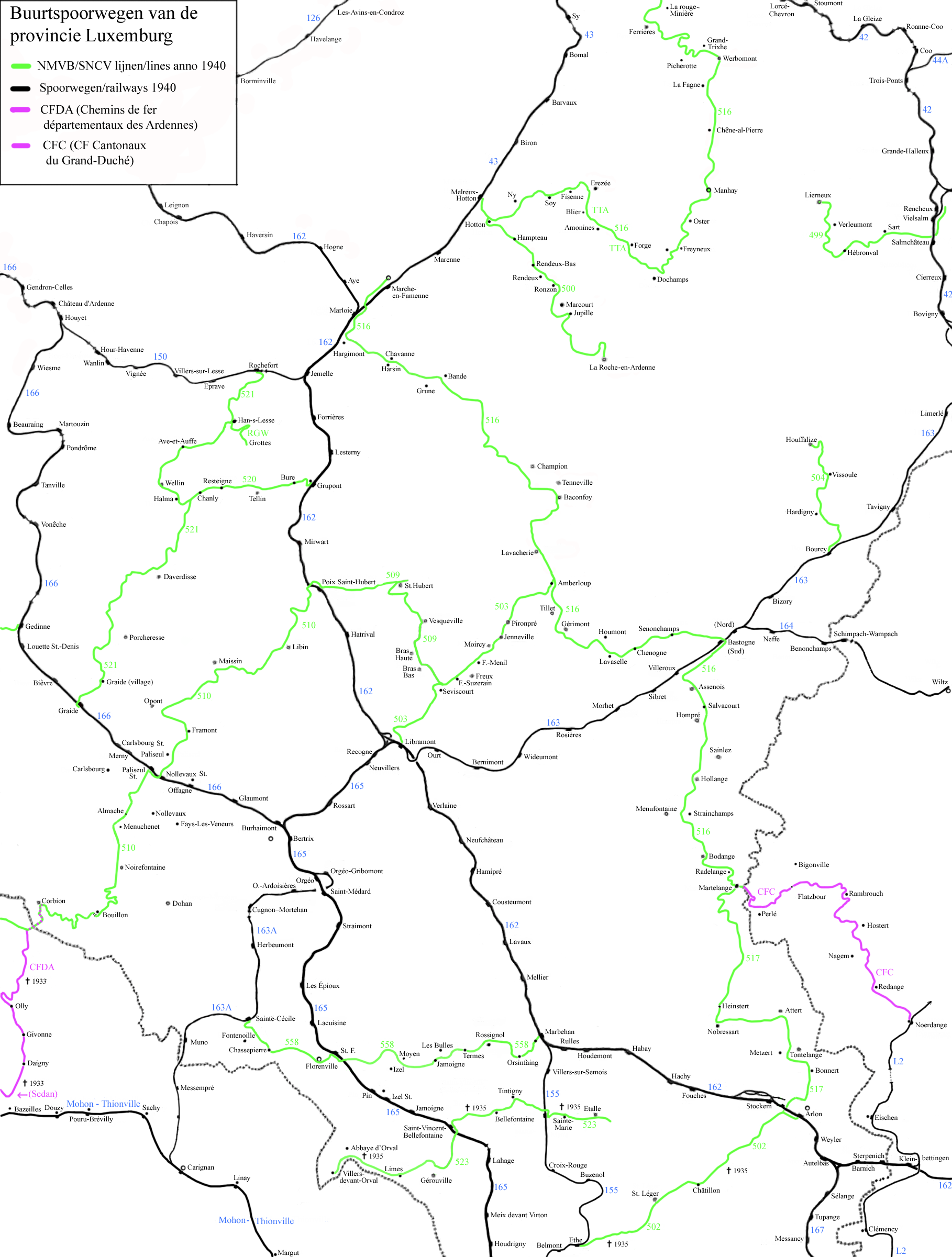 Map of the vicinal railways in the Belgian province of Luxemburg.